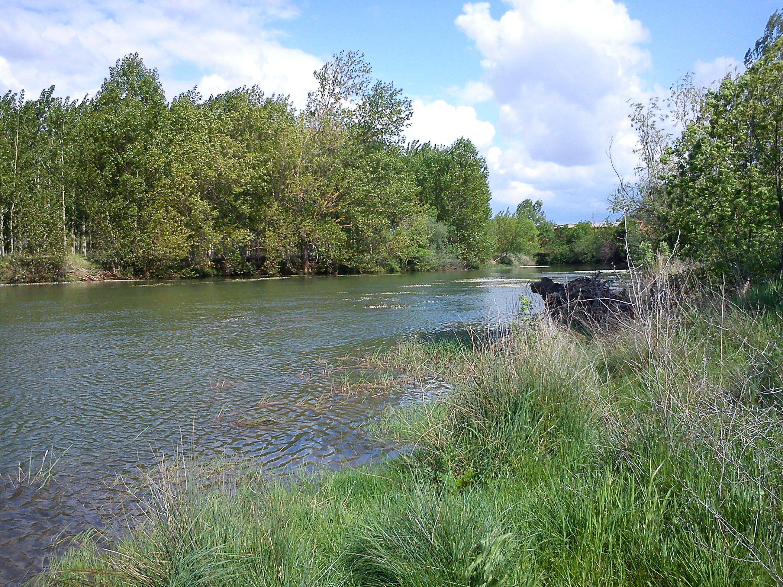 Rio Eria